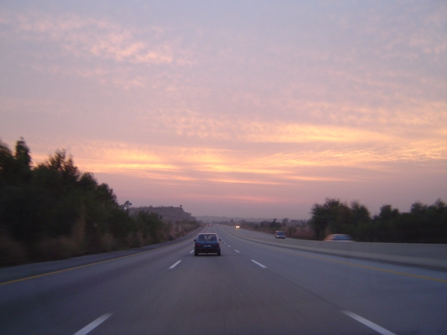 The Lahore-Islamabad Motorway in Pakistan.